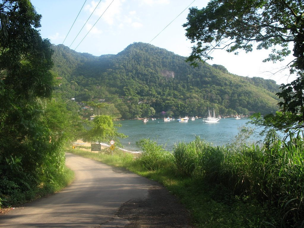 Picinguaba, Ubatuba, São Paulo, Brazil.